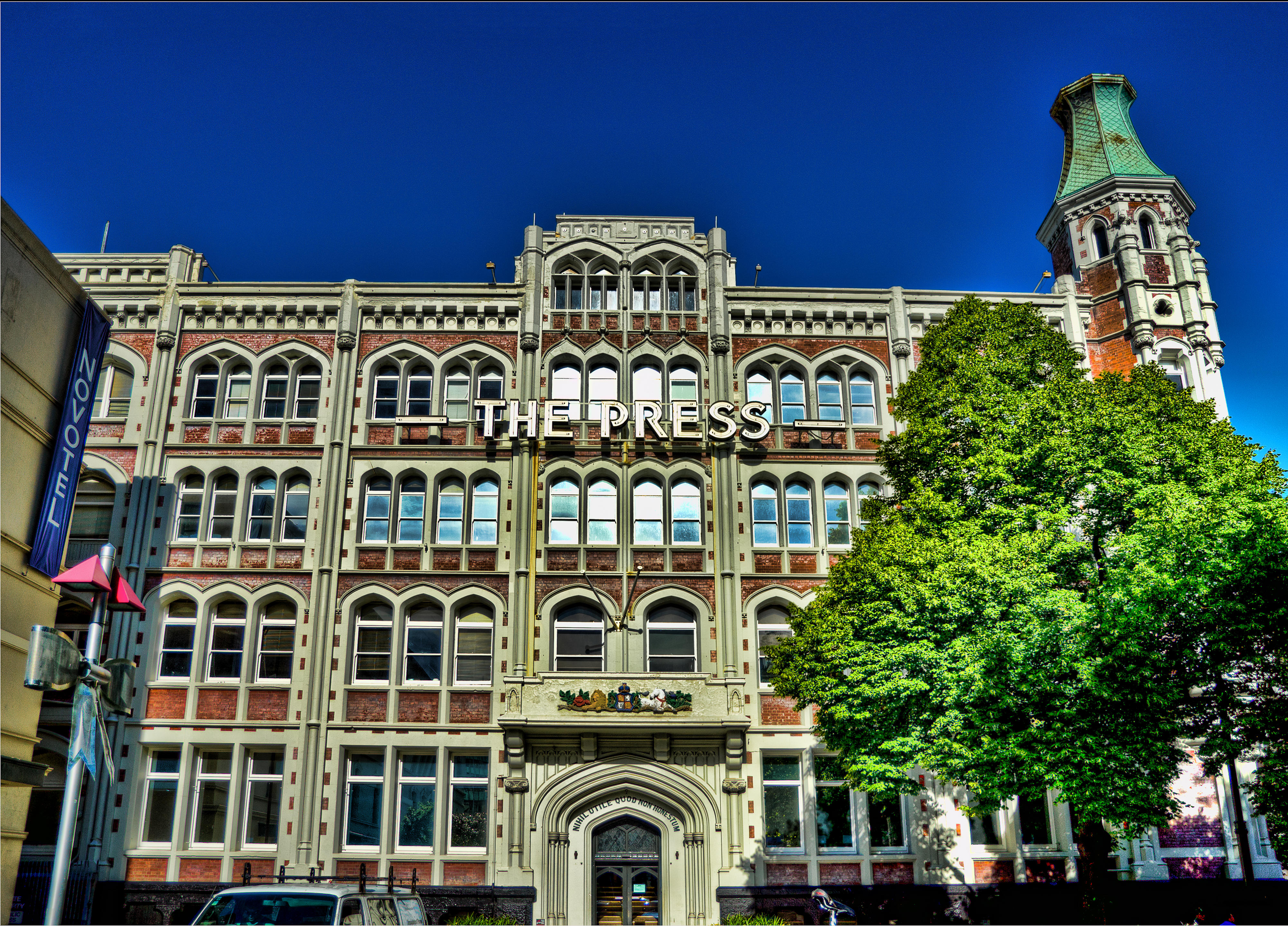 Christchurch Press Building taken November 2010. Building reportedly has extensive damage as a result of the February 22nd 2011 earthquake and may have to be demolished along with 50% of Christchurch's historic iconic buildings. If you use this photo for any reason the author would like you to acknowledge him as the source. Please follow the Flickr page link below and paste a link of your usage. Thanks